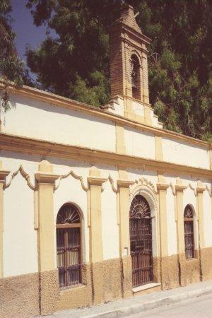 Señor del Río chapel in Puente Genil